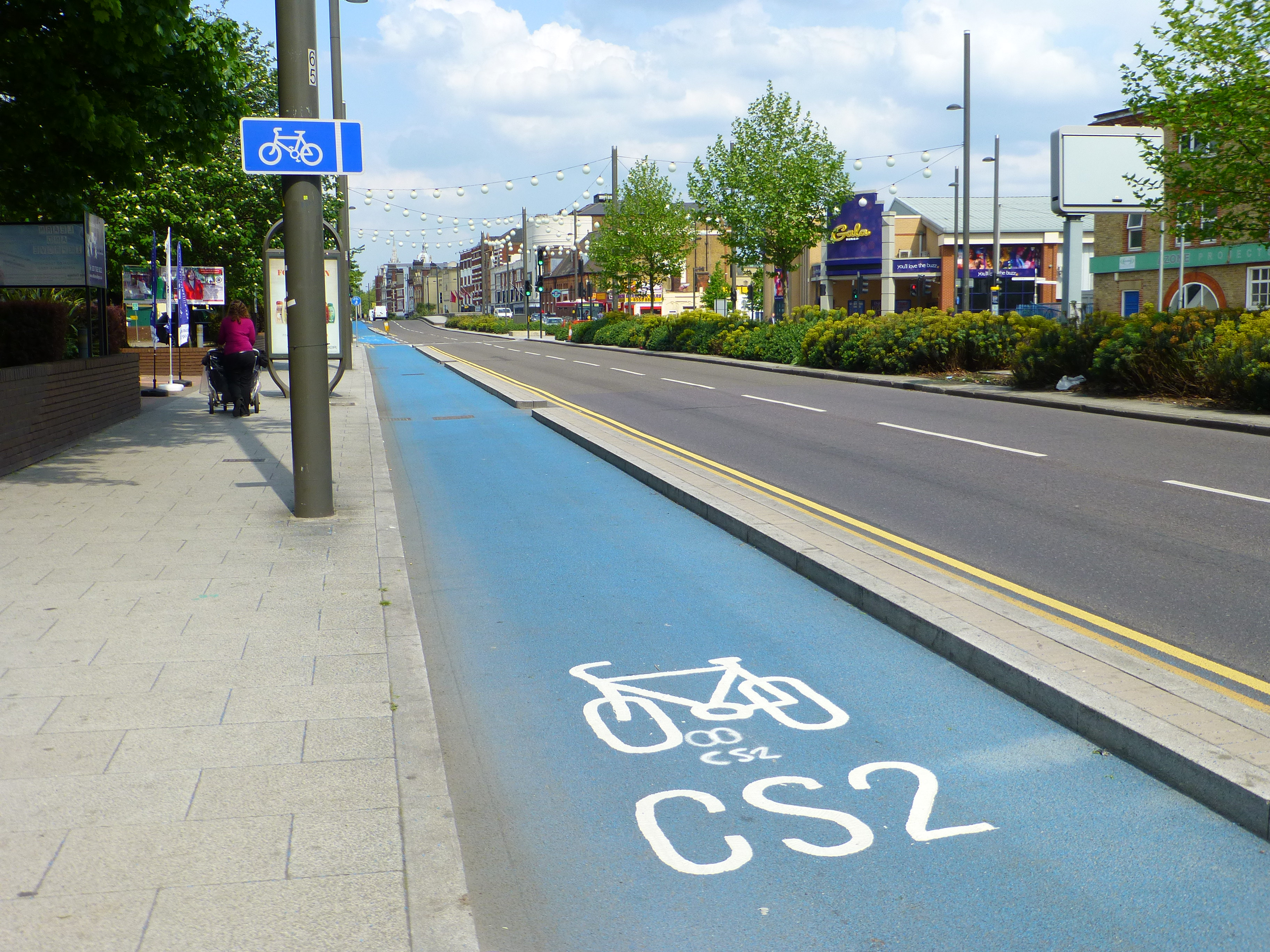 Cycle Superhighway2 which replaces a bus lane on the A118 Stratford High Street, Stratford, London.